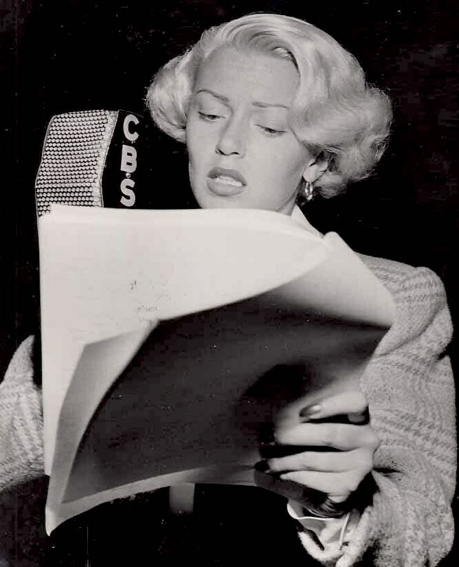 Lana Turner performing on Suspense radio series for CBS, 3 May 1945